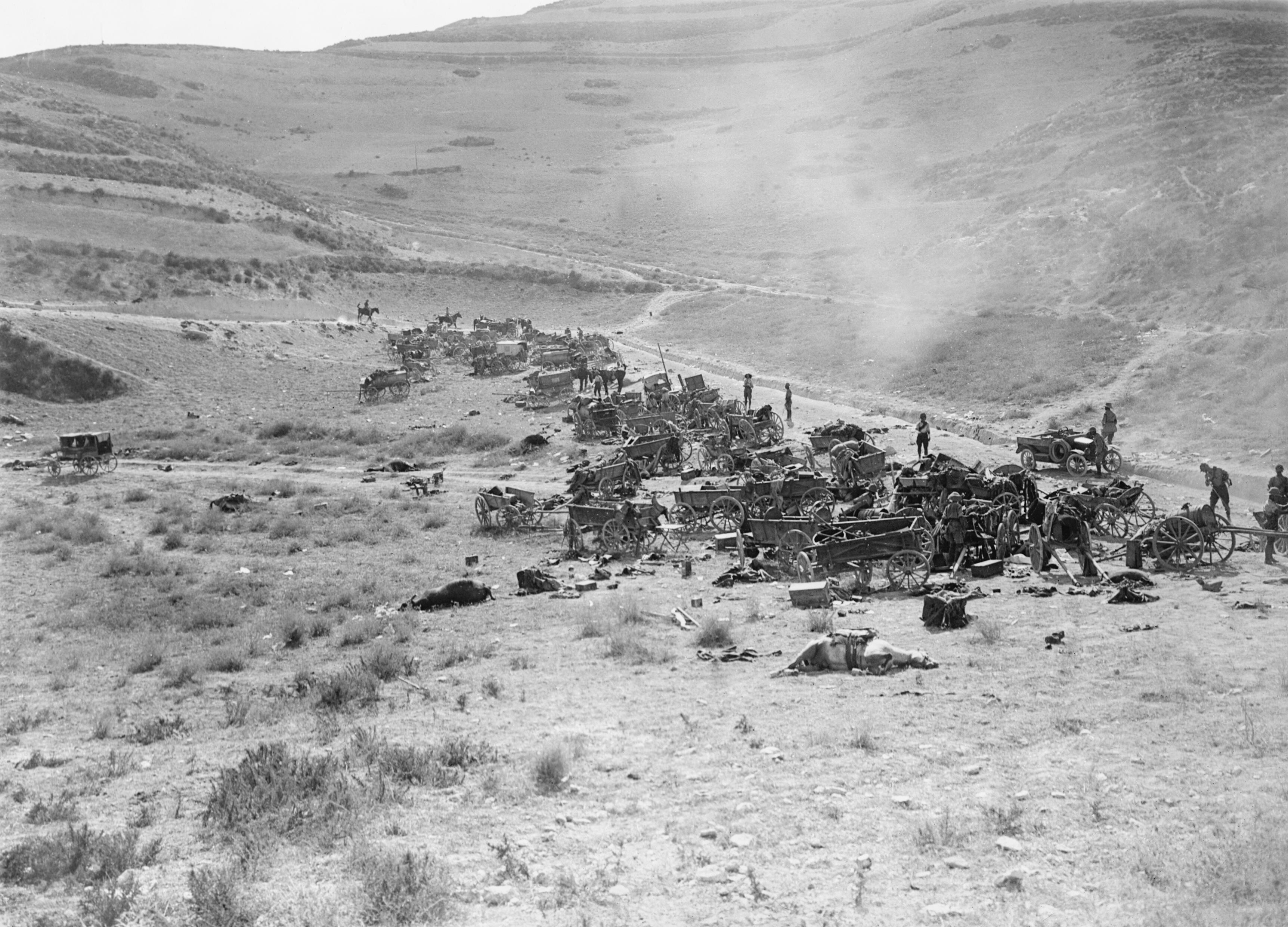 The Battle of Megiddo, September 1918: Turkish carts and gun carriages destroyed by British aircraft on the Nablus-Beisan road in Wadi Fara.